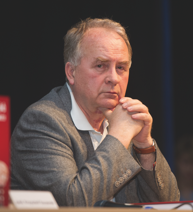 Leszek Sosnowski during an event in 2015.